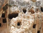 The prehistoric homosapiens-made caverns. The unique, phenomenal and inimitable wonder monument, is the perpetual mark of the city. Carbon-dating suggested that the creation era goes back to 15000-24000 years ago. The prehistoric homosapiens-made caverns. The unique, phenomenal and inimitable wonder monument, is the perpetual mark of the city. Carbon-dating suggested that the creation era goes back to 15000-24000 years ago.